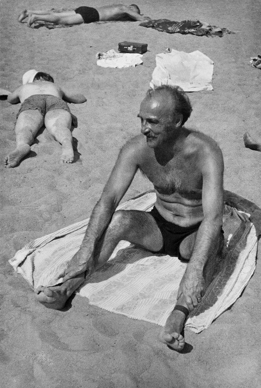 Photograph of the Finnish musician Ilmari Weneskoski (1882–1976) at Hietaniemi beach, Helsinki.